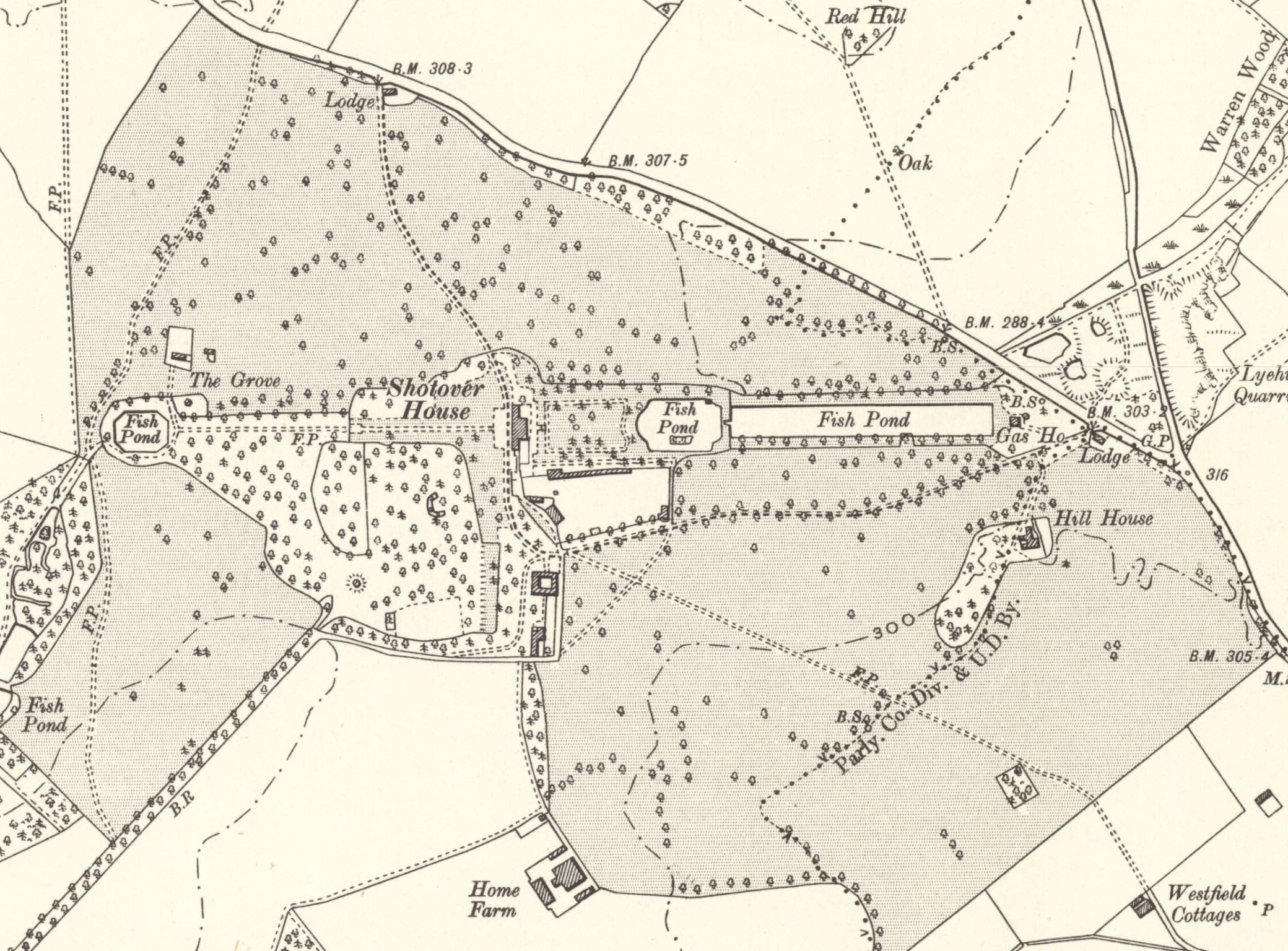 Map of Shotover Park in Oxfordshire, from the Ordnance Survey, 1898 (published 1900).